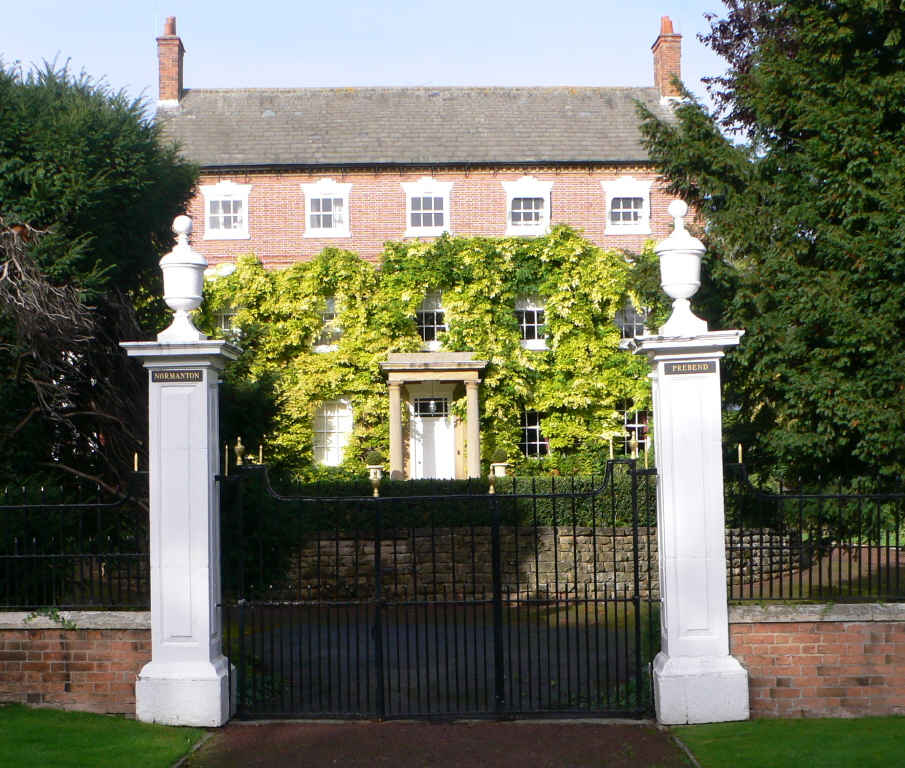 Normanton_prebend